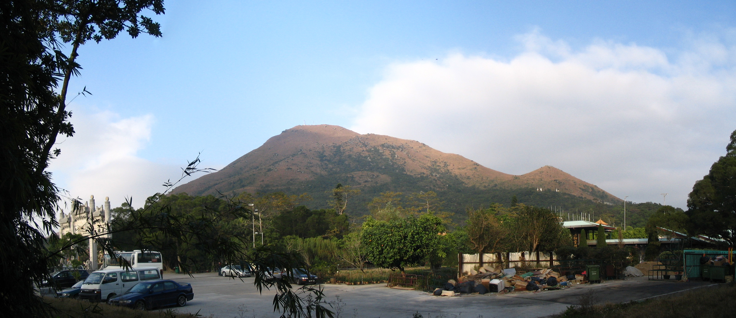 Panoramic photo of Nei Lak Shan, combined from 2114517115, 2114518169, 2114519215 and 2114520313